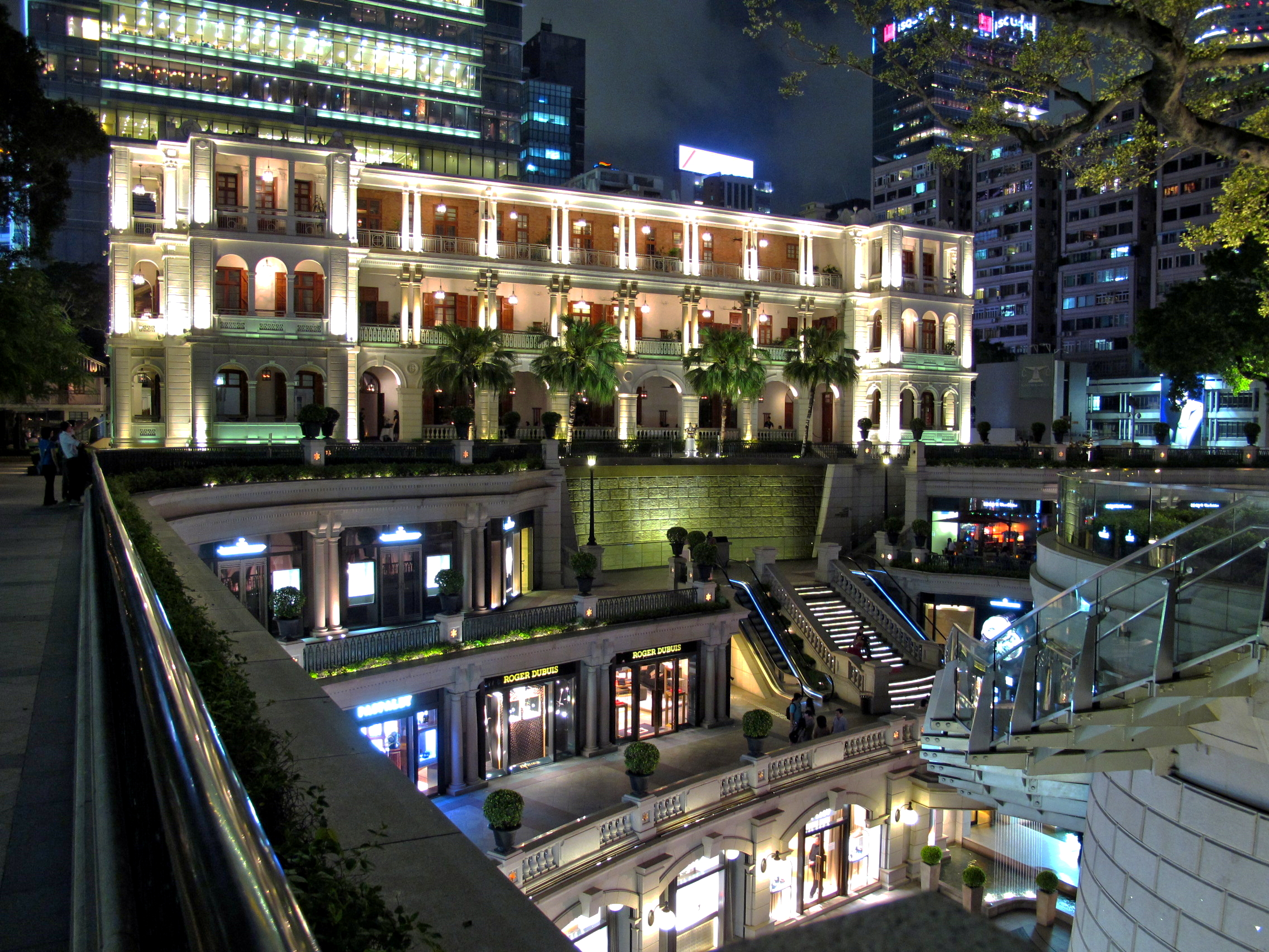 1881 Heritage in Tsim Sha Tsui